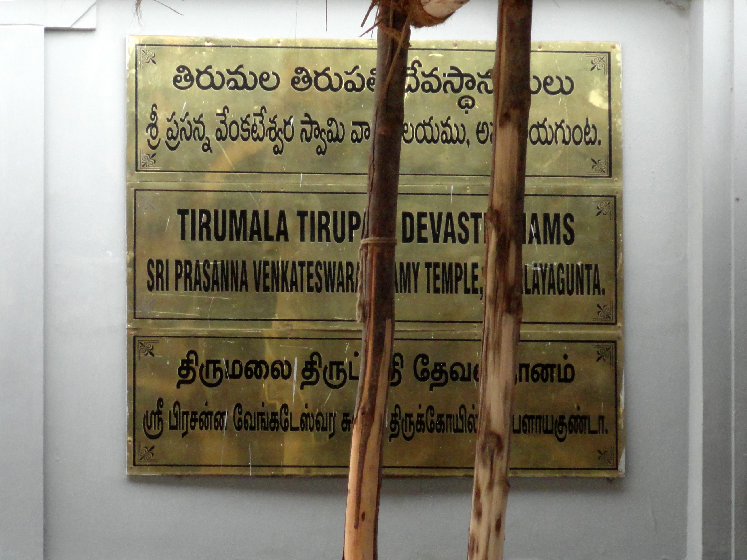 a board at s.v. temple at appalayagunta